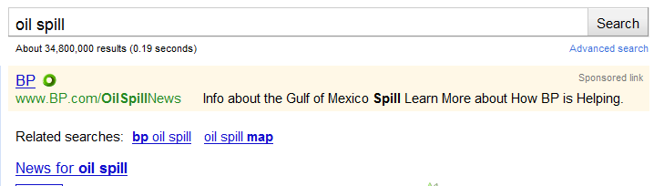 Google search result of 2010-06-06 for "oil spill" showing #1 sponsored link by BP